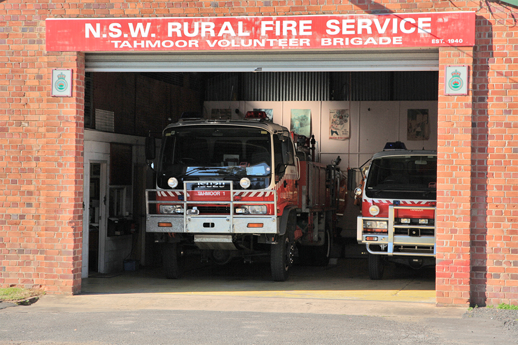 Tahmoor Rural Fire Service Shed, Tahmoor, NSW, Australia.